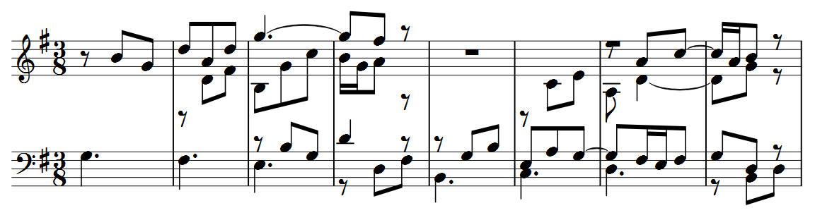 Musical quotation from Goldberg Variations (Variation 4) by Johann Sebastian Bach (1685–1750). Made using Sibelius 4 by Jashiin. The music quoted is in the public domain, and the image is hereby released into the public domain by Jashiin.